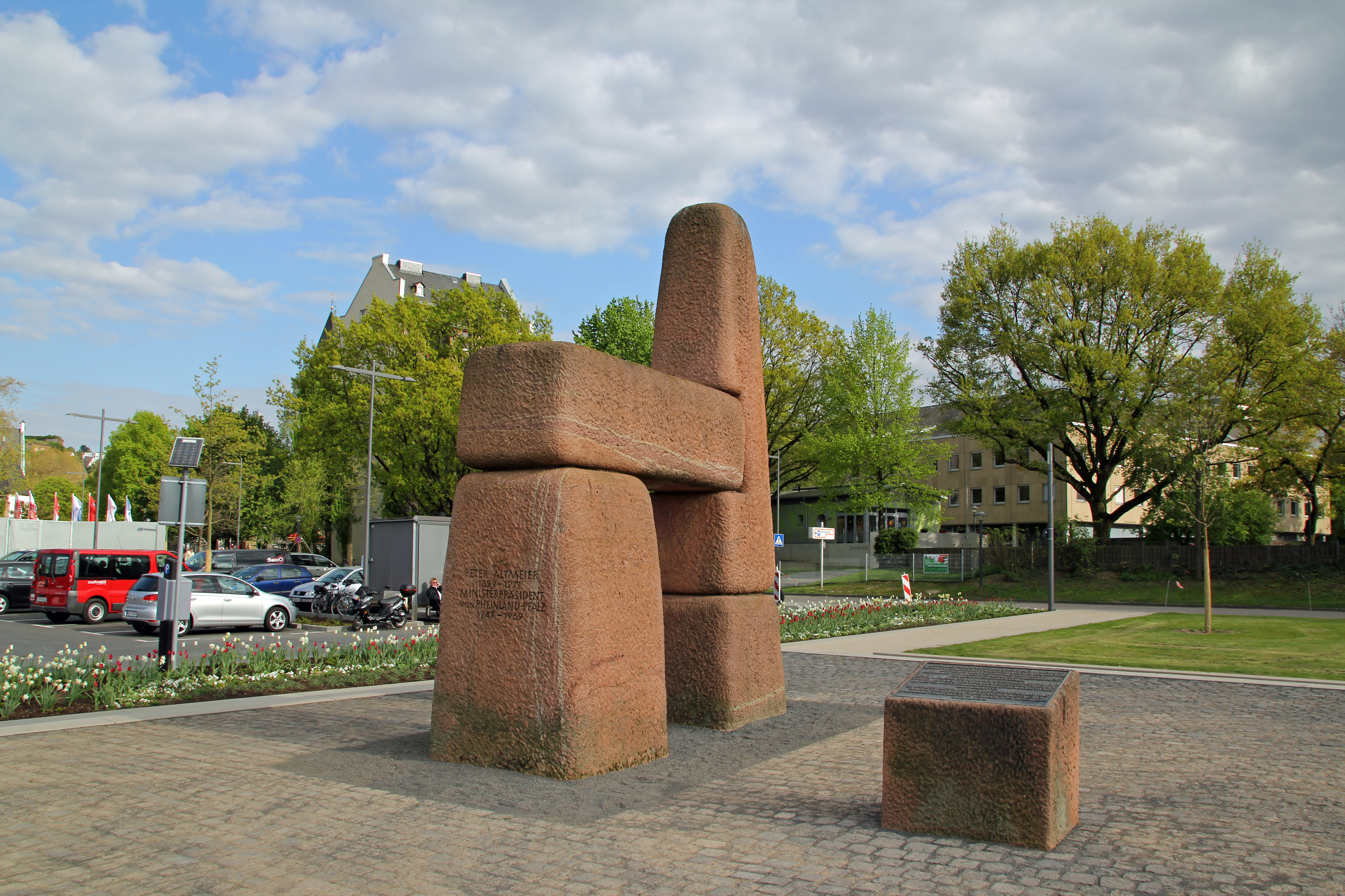 Bank of Moselle with the Peter-Altmeier-Memorial in Koblenz